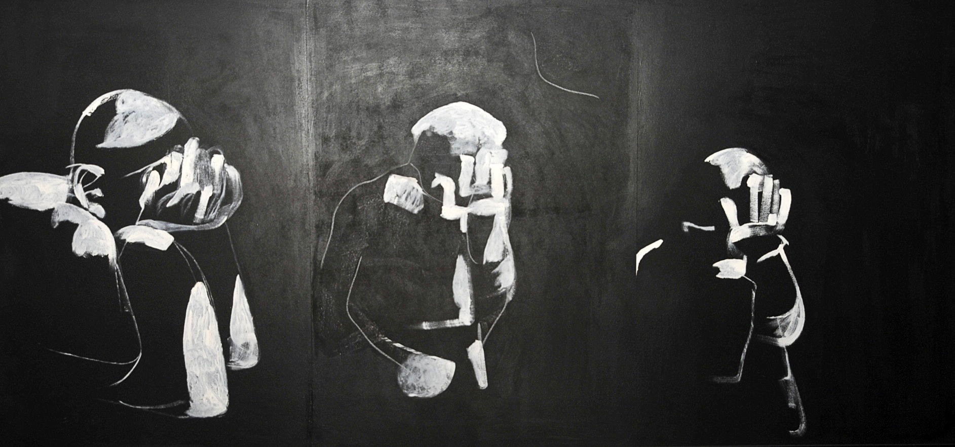 Religious painting by the Spanish artist Teresa Peña